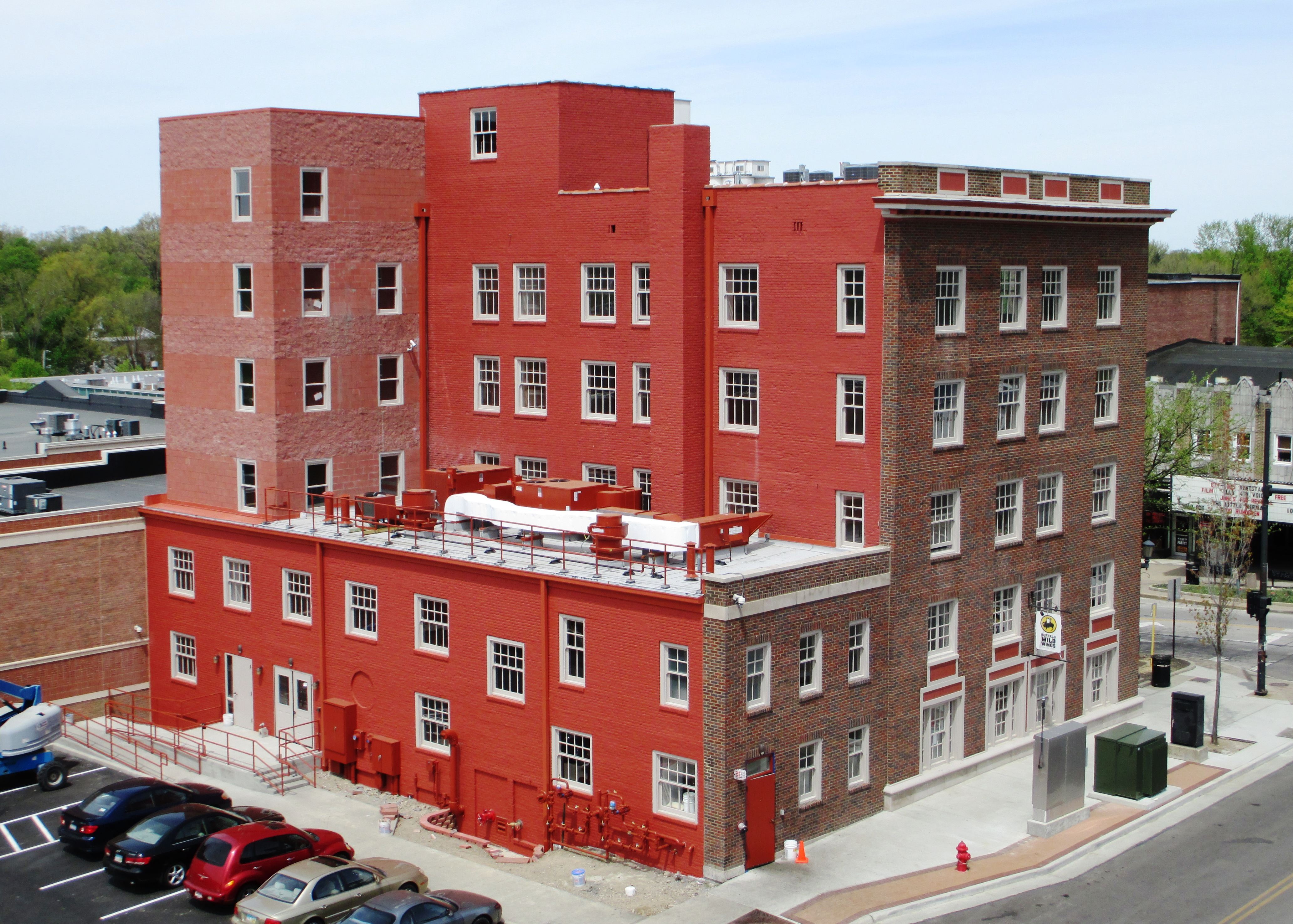 Rear view of Acorn Corner, historically known as the Franklin Hotel, in Kent, Ohio, United States, just after completion of a $5.8 million renovation and restoration.